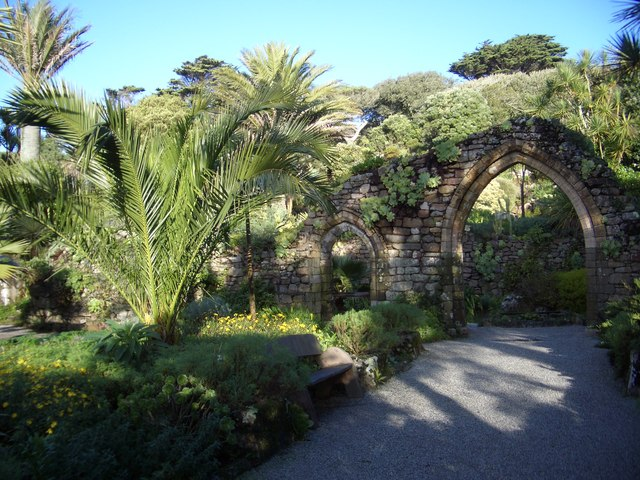 Remains of Tresco Abbey in Tresco Abbey Gardens The restored remains of the Abbey Church in Tresco Abbey Gardens.